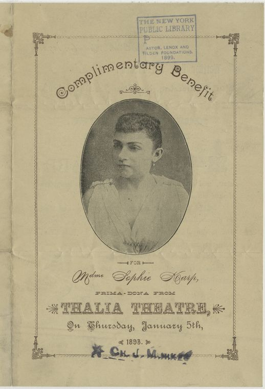 Theatre placard; benefit for Yiddish theatre actress (and singer) Sophie Karp at the Thalia Theatre, New York City 5 January 1893